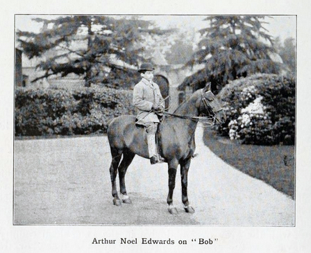 Arthur Noel Edwards, son of Arthur Janion Edwards and Hilda Margaret Tennant, his wife, in Leaves from a Hunting Diary in Essex (1900). Arthur Edwards (1883–1915) became an international polo player who later was a captain in the 9th Queen's Royal Lancers, and died in the First World War in 1915 as the result of a poison gas attack by the Germans during the Second Battle of Ypres. His memorial is within The Church of the Holy Innocents at High Beach, his home village. His brother, Guy Janion Edwards (1881–1962), was an English cricketer active in 1907.